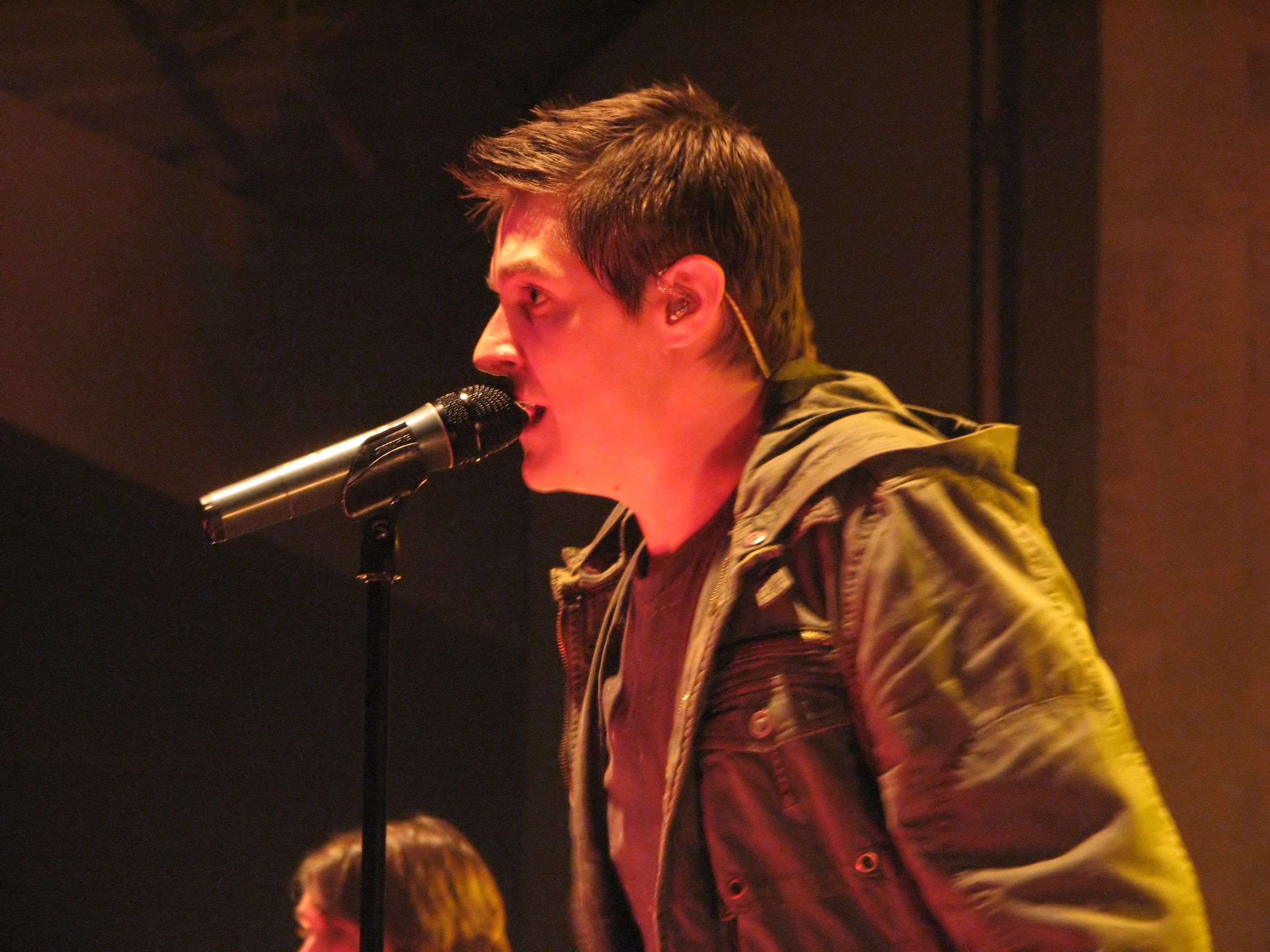 Jars of Clay lead singer, Dan Haseltine, performing in 2007